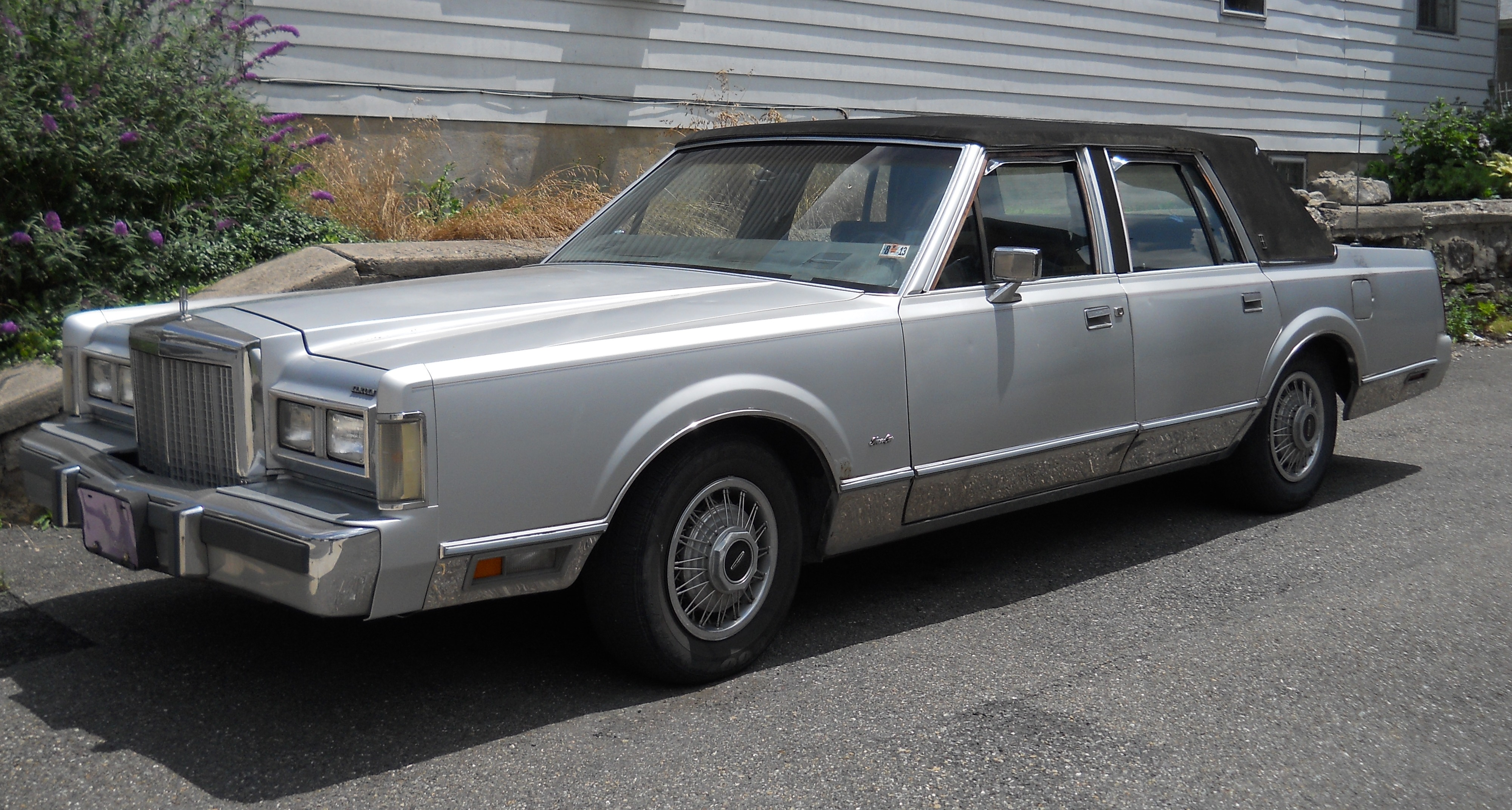 Lincoln Town Car First Generation 1980–1983 base model, photographed in Lansford, Pennsylvania, USA.